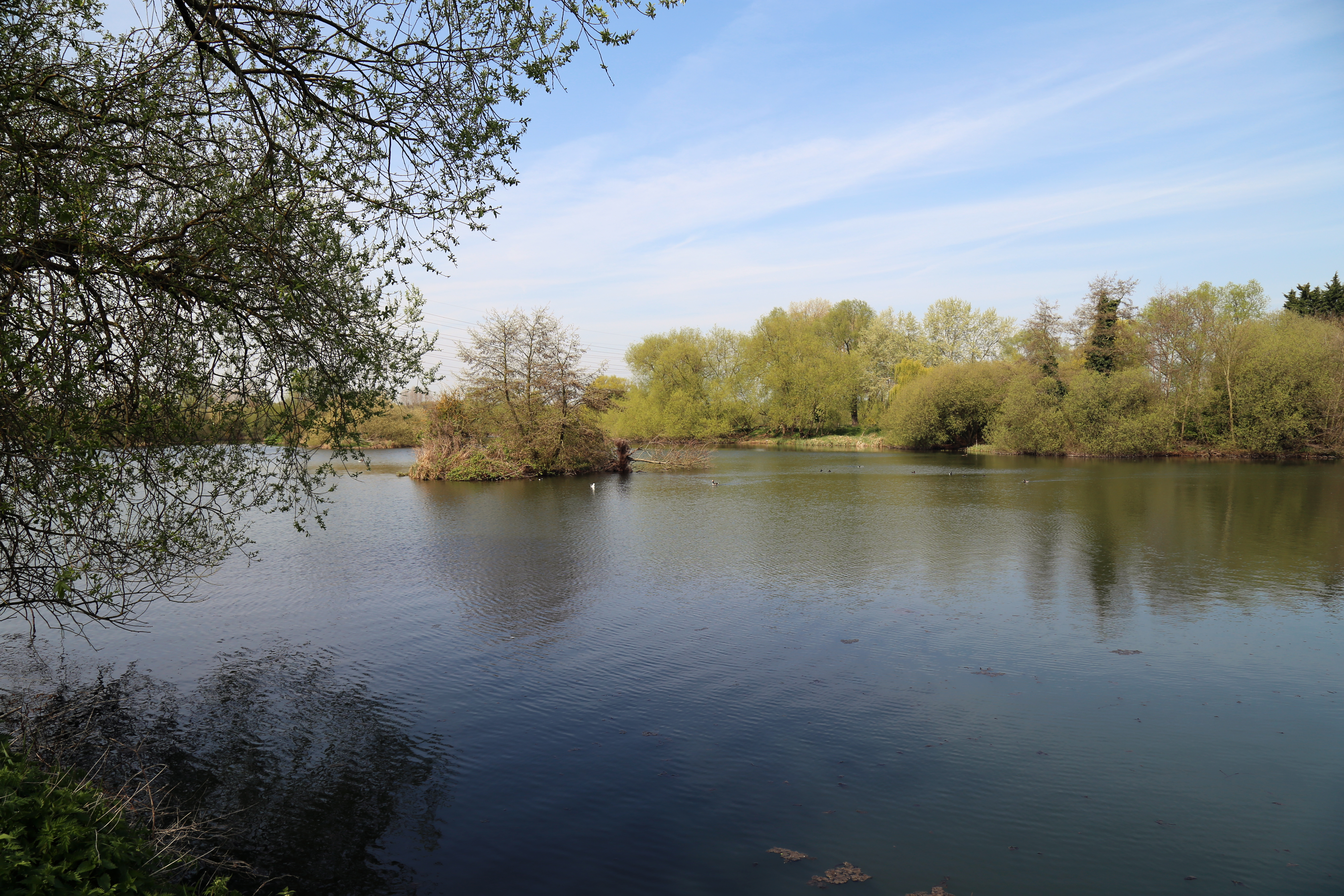 Across Hooks Marsh Lake looking north-west at Fishers Green, Lee Valley, Waltham Abbey, Essex, England